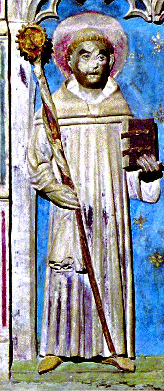 Sant Bernat, fragment del retaule de Sant Bernat i Bernabé de Montblanc, segle XIV